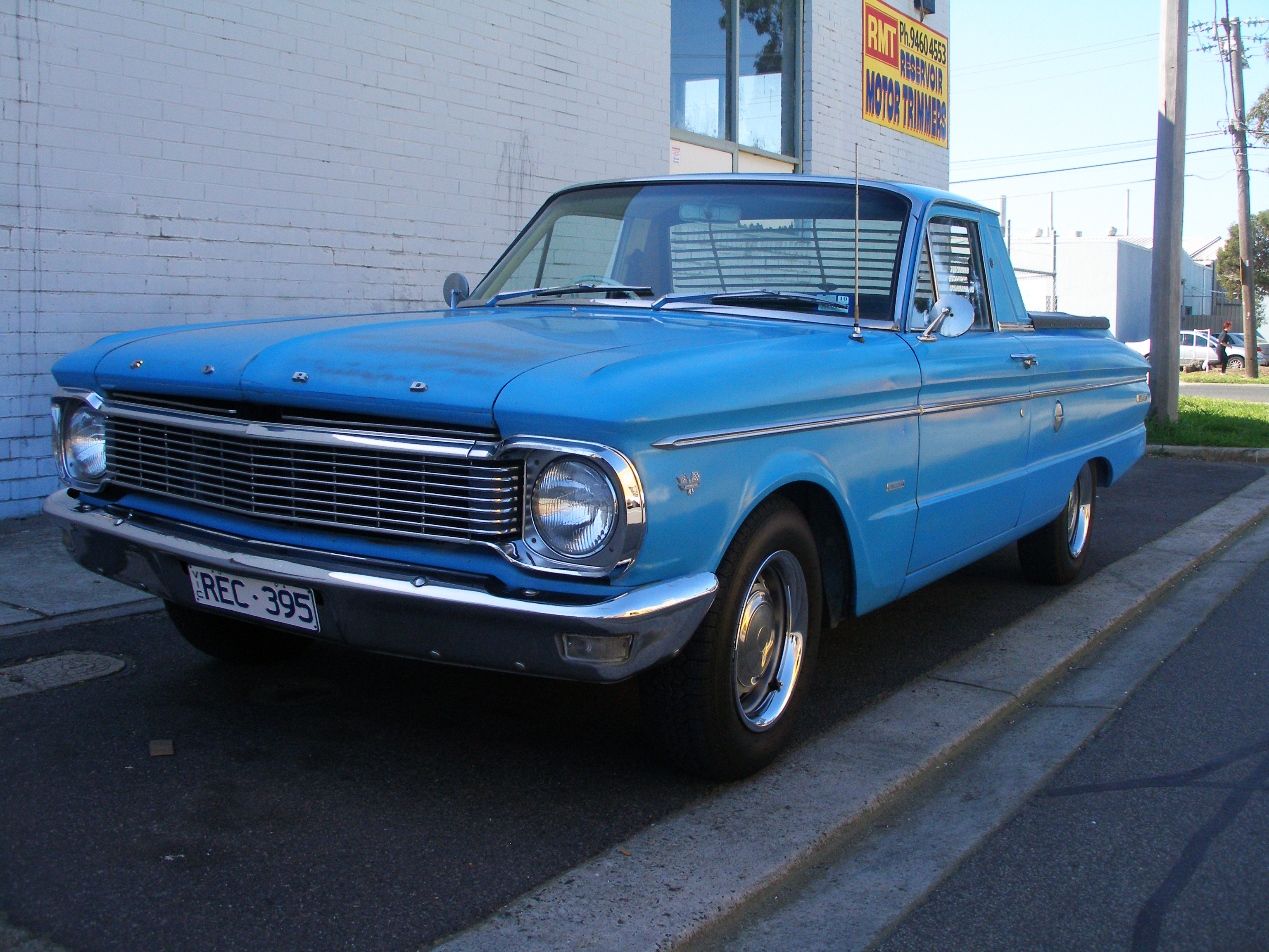 The Ford XP Falcon Deluxe Utility, last of the first generation Australian Falcons